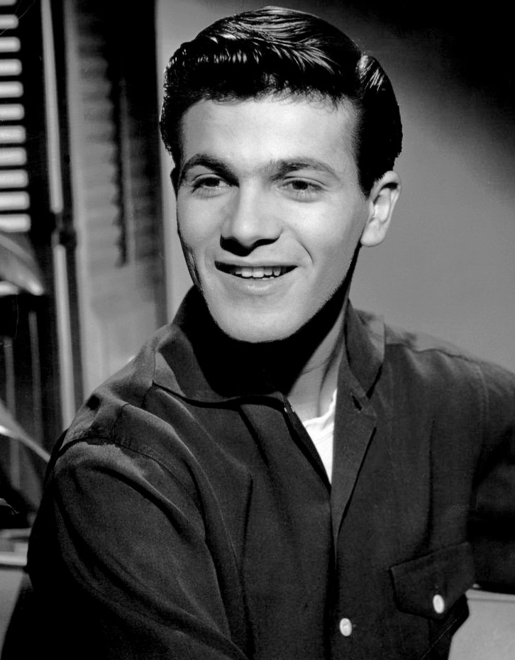 Publicity photo of singer and actor Tommy Sands.